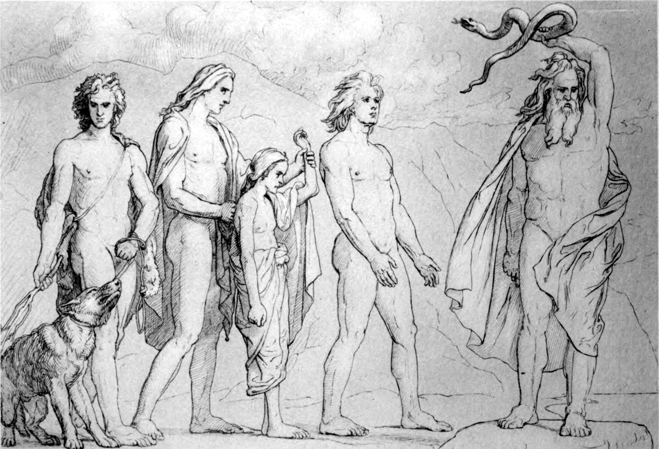 Odin casts Loki's children away.